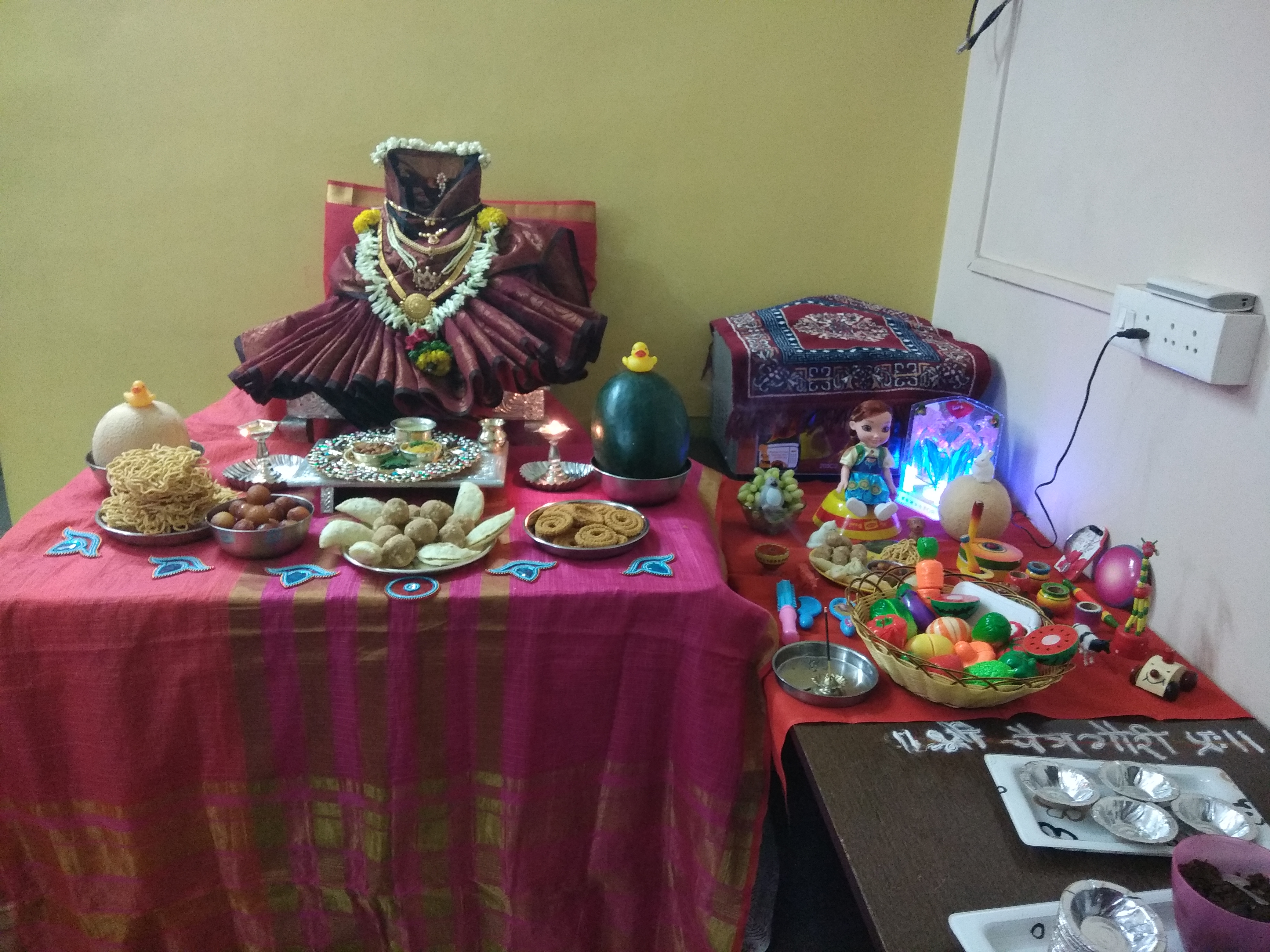 Chaitra gauri